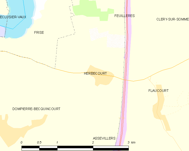 Map of French municipality Herbécourt